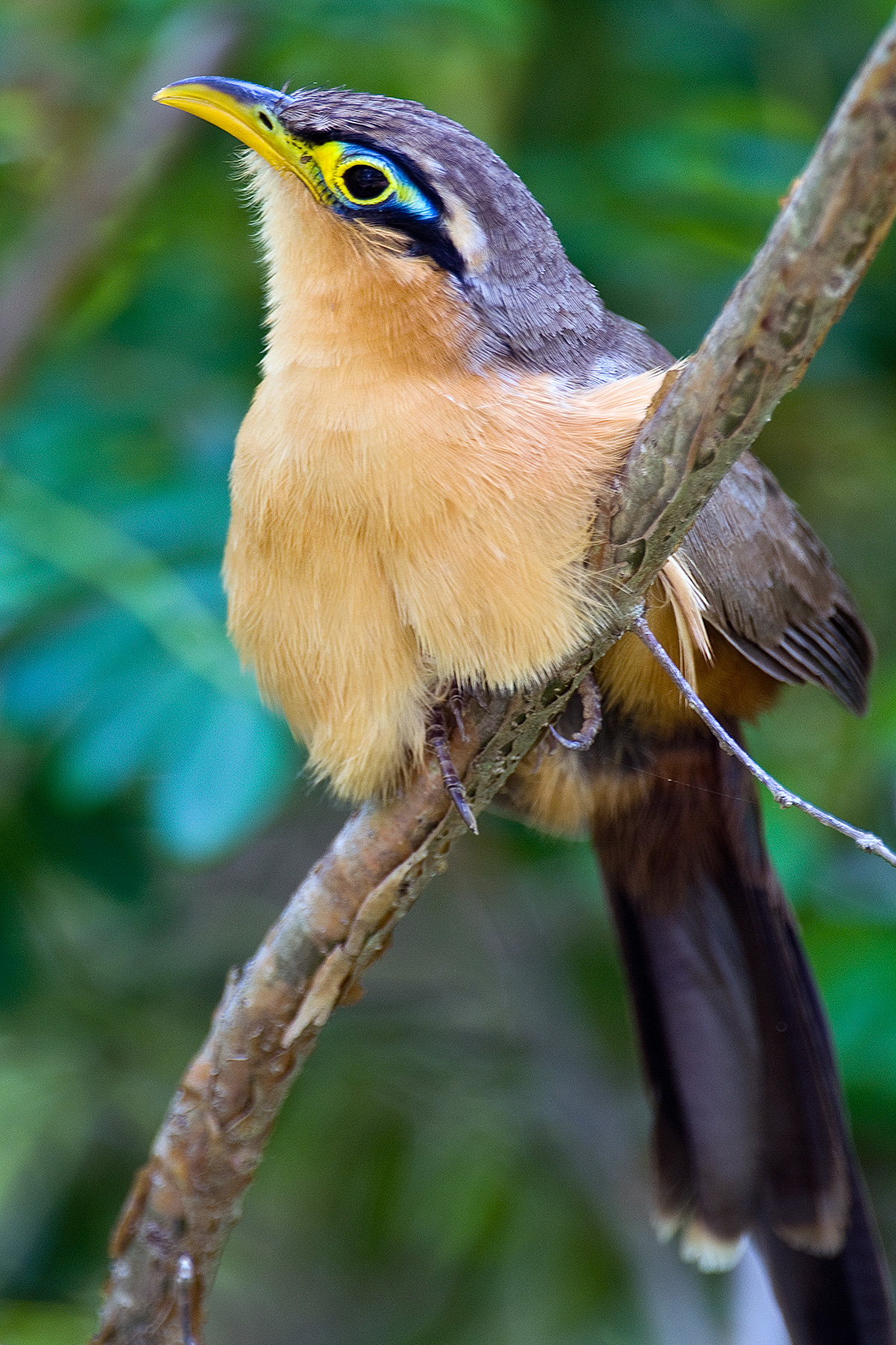 Lesser Ground Cuckoo Morococcyx erythropygus photographed in coastal thorn forest south of Puerto Vallarta, in the Mexican state of Jalisco. Taken with a Nikon D2Xs, 600 mm f4 1/80 sec ISO 200